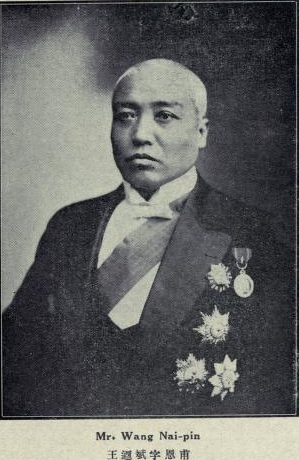 Wang Naibin, Enpu (born 1870)